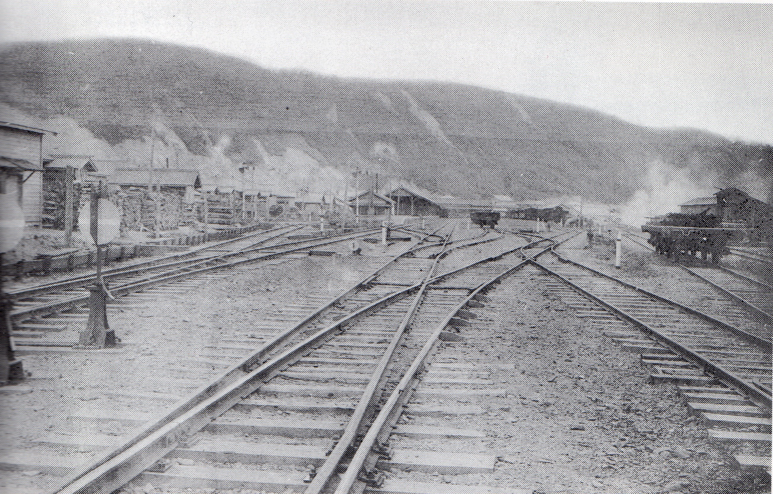 Tracks in first Wakkanai station around 1926 (renamed to Minami-Wakkanai station in 1939 and moved to current position in 1952)